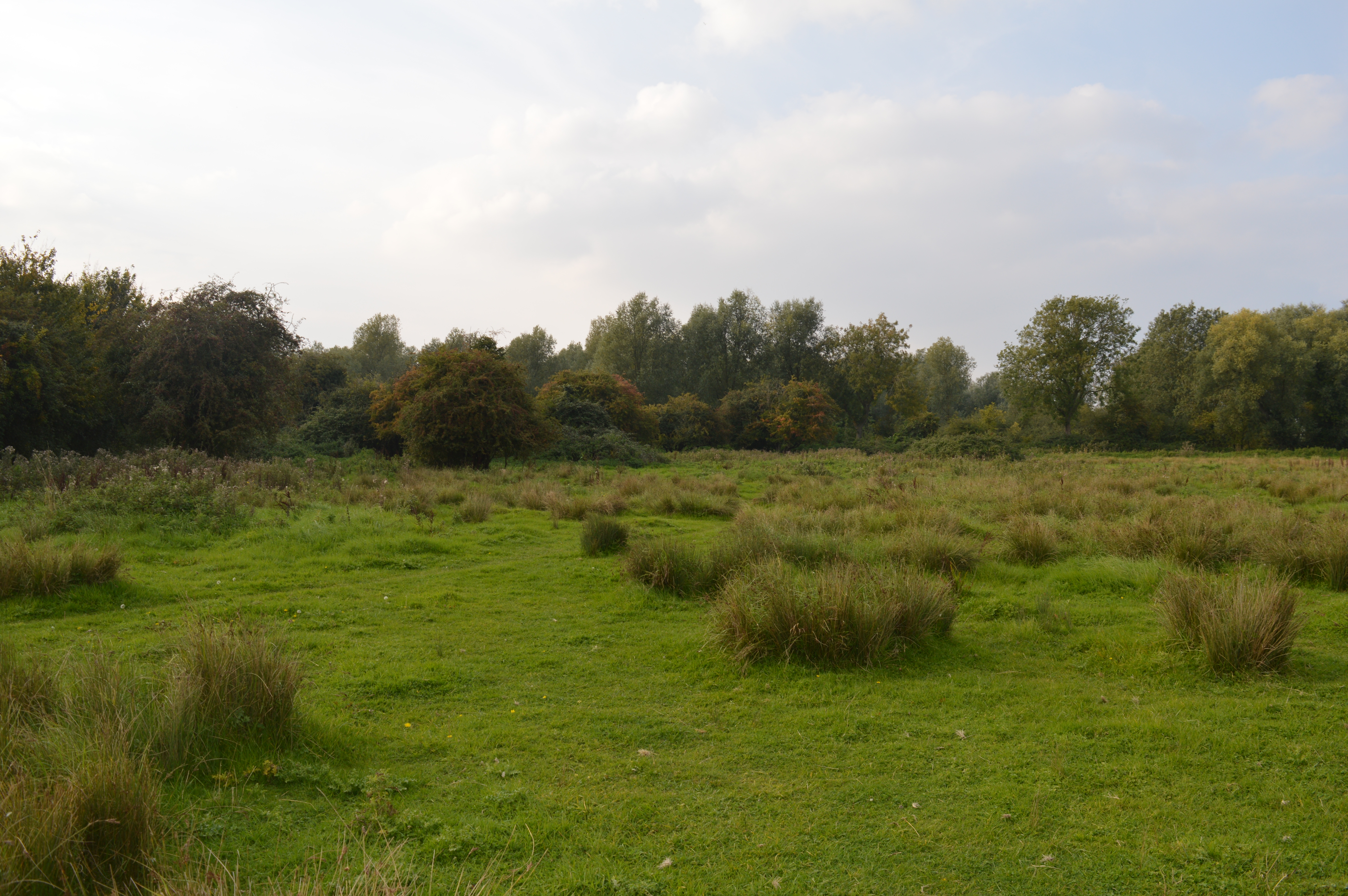 Langford Meadows, part of Henlow Common and Langford Meadows Local Nature Reserve in Langford, Bedfordshire